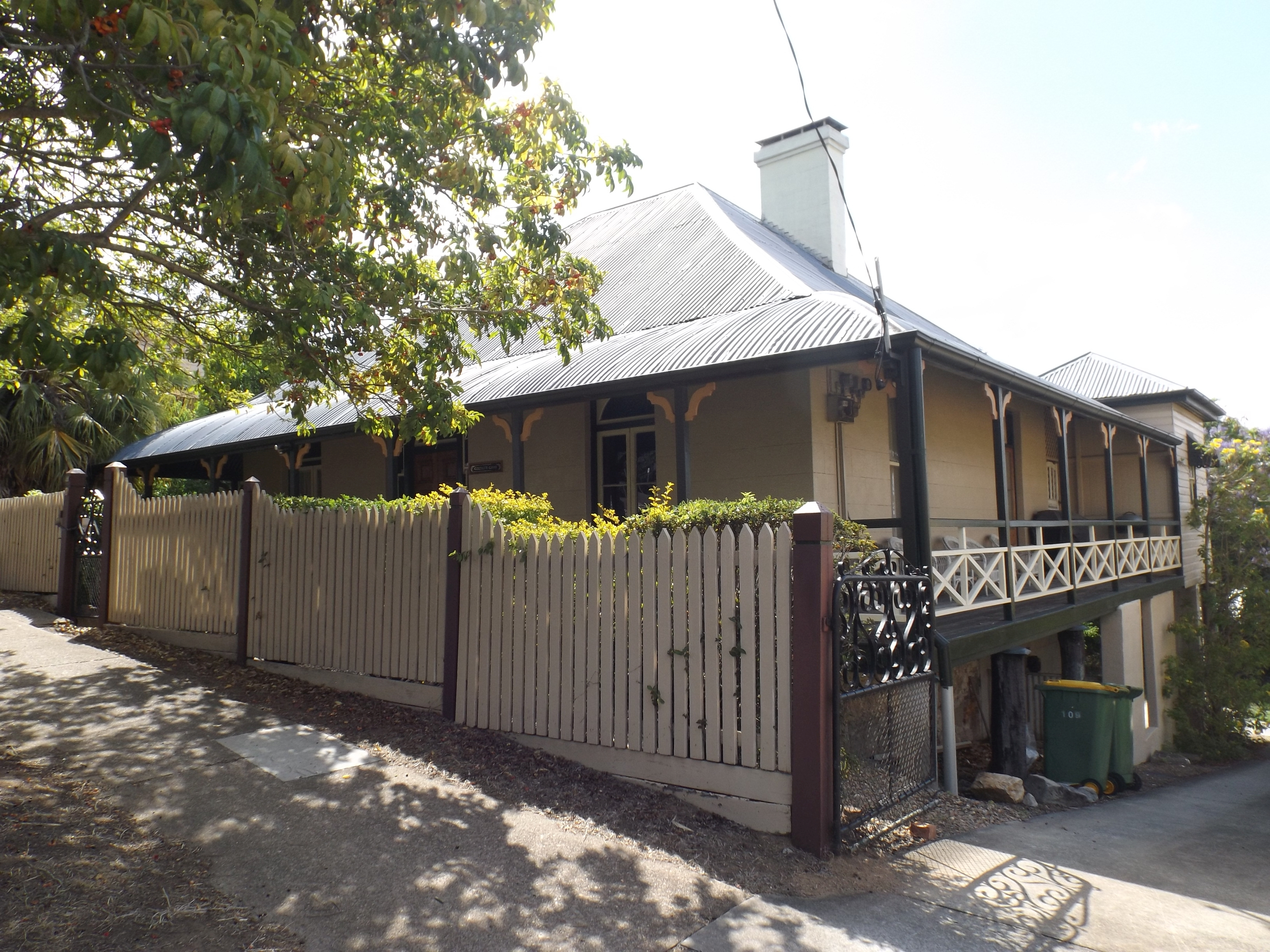 Photo of Colthup's House in Ipswich, Queensland, Australia.